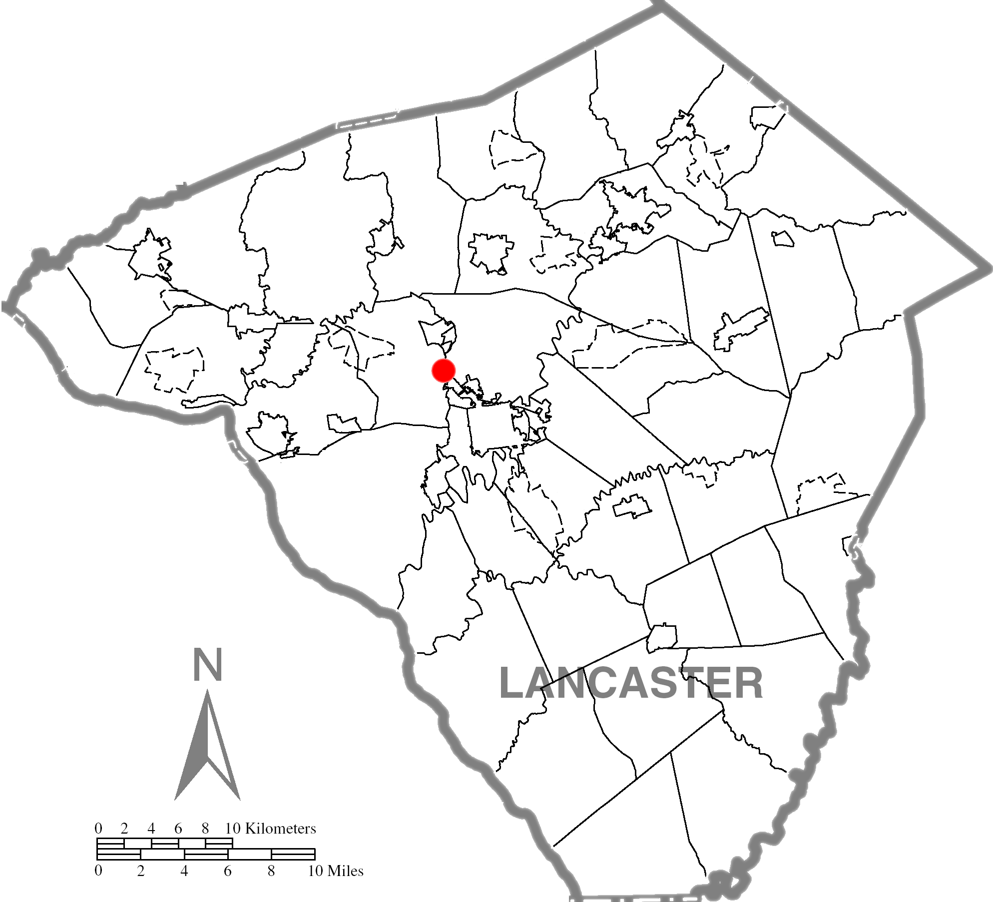 Lancaster County dot map of the Landis Mill Covered Bridge.